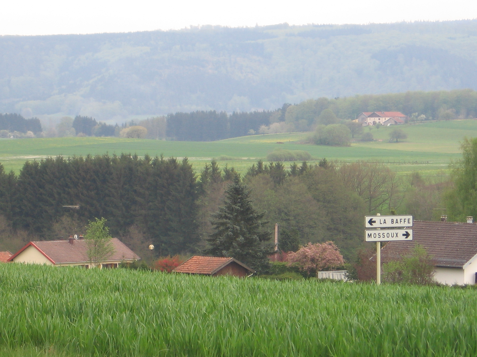 La Baffe surroundings, may 2006